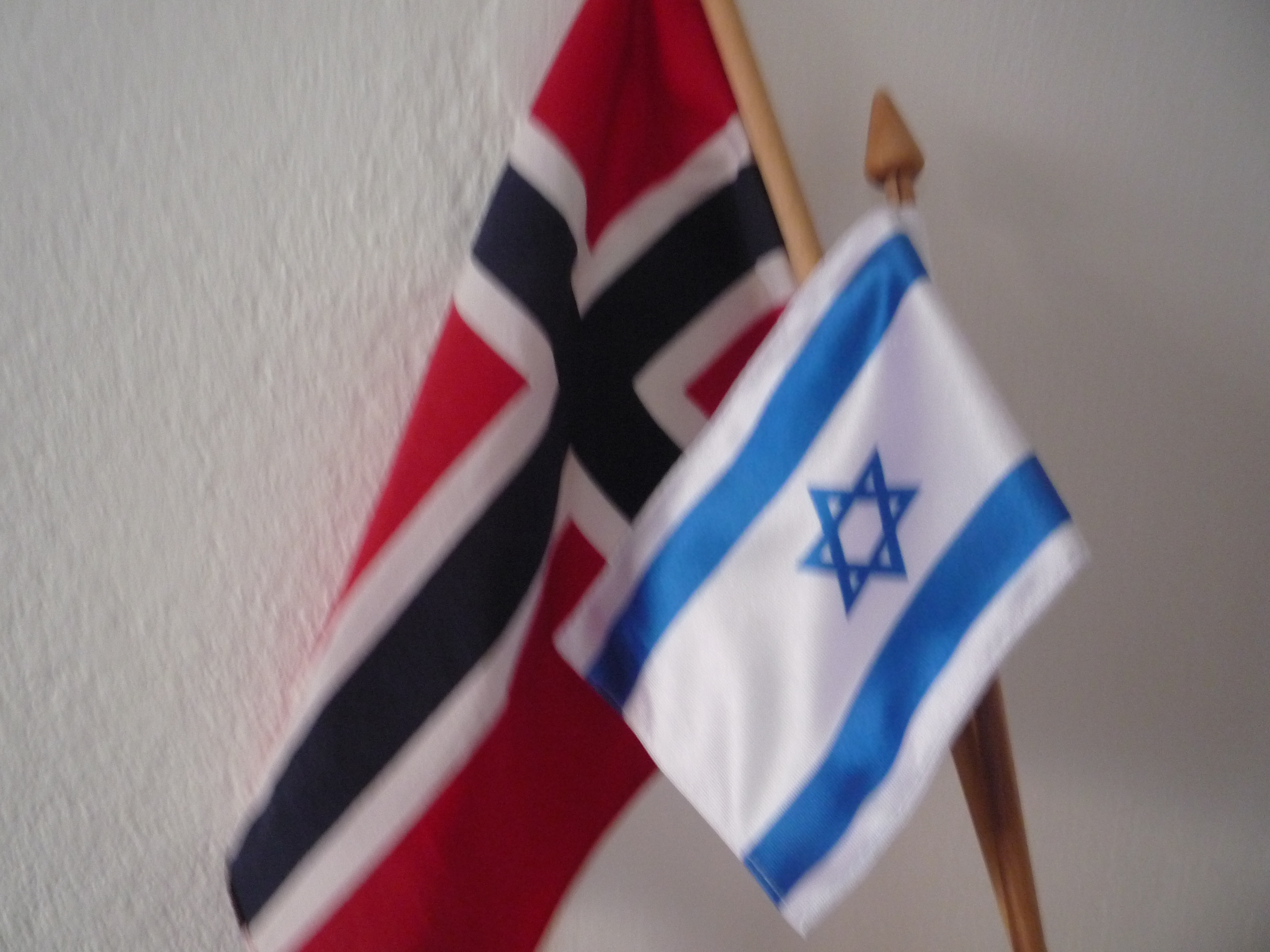 Flag of Norway and Israel.